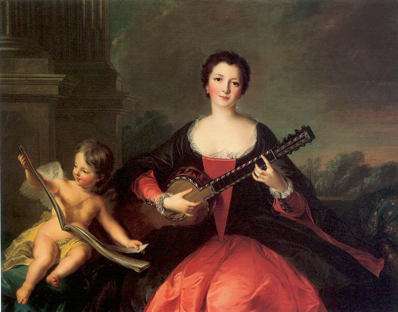 Portrait of Philippine Élisabeth d'Orléans (1714-1734) or her cousin Louise Anne de Bourbon (1695-1758).